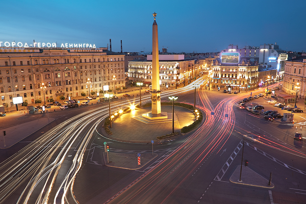 Hero-City Obelisk (Leningrad). The author of the monument — architect Vladimir Lukyanov. Obelisk is located in Vosstaniya Square in Saint Petersburg — Leningrad. Installed in May 1985 and the fortieth anniversary of the Victory Day (May 9) in Great Patriotic War.